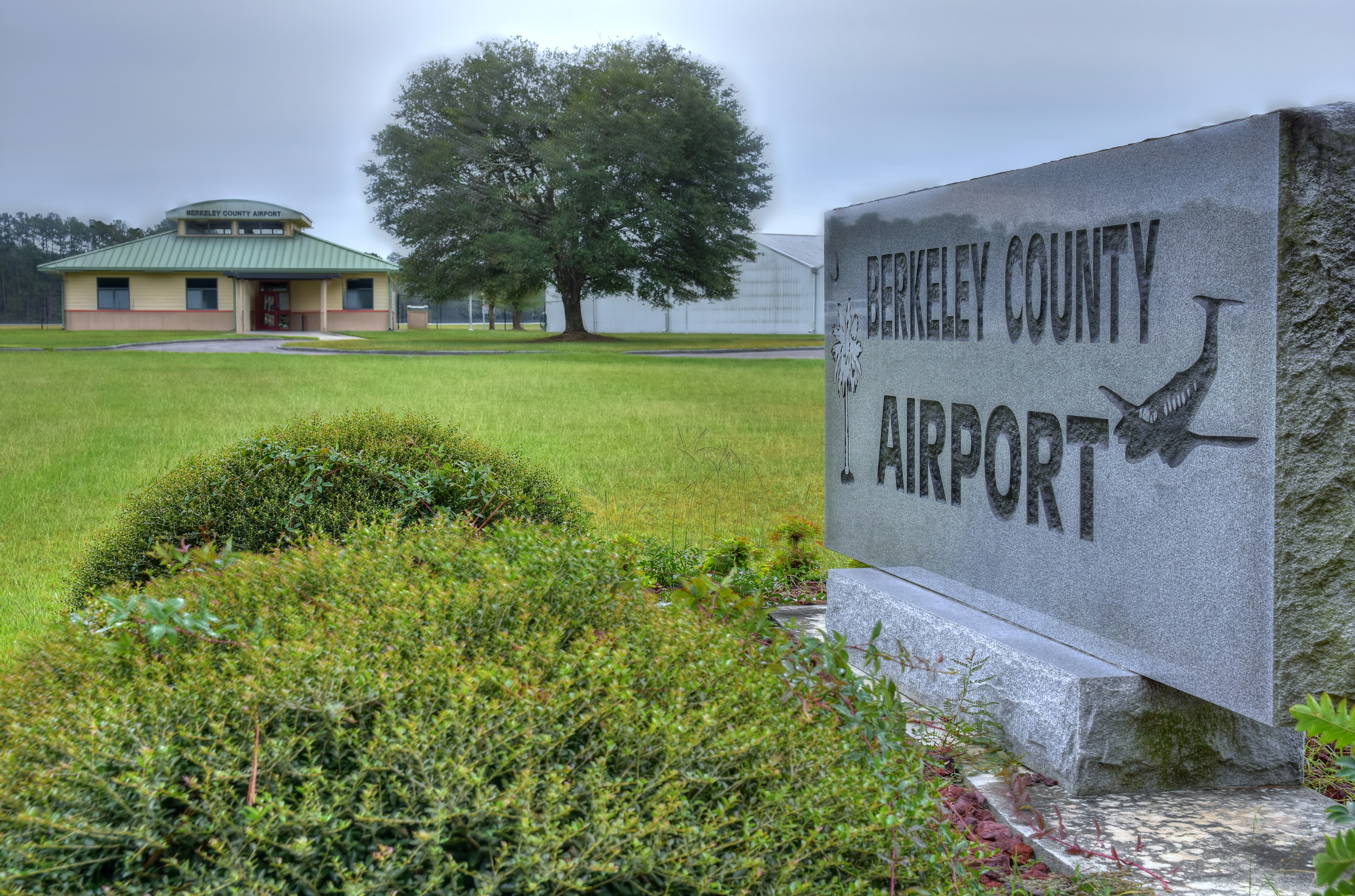 Front Entrance